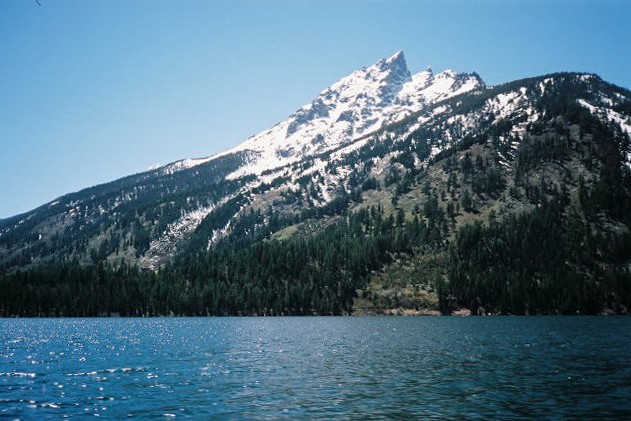 Jenny Lake in Grand Teton National Park